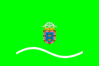 Flag of Valverde del Camino